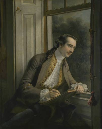 Paul Sandby (1725 (this birth year seems most unlikely – 1730/1 seems more likely)9 November 1809) was an English map-maker turned landscape painter in watercolours, who, along with his older brother Thomas, became one of the founding members of the Royal Academy in 1768. Born in Nottingham, Sandby joined the topographical drawing room of the Board of Ordnance at the Tower of London in the early 1740s and in 1746 was tasked with mapping the remote Scottish Highlands. While undertaking this exacting commission, he began producing watercolour landscapes and news of his talent soon spread.